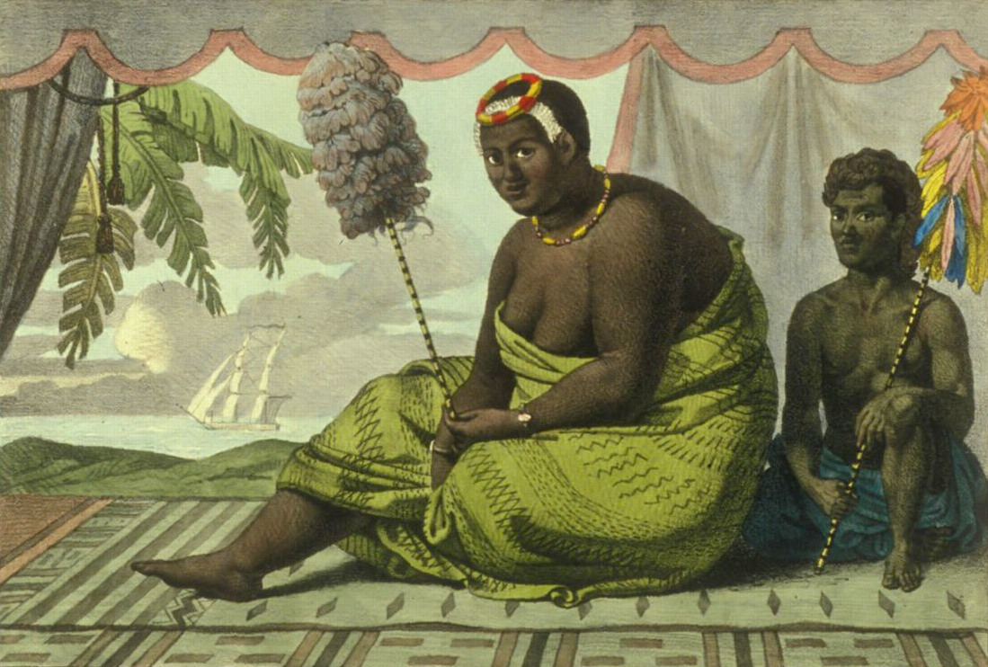 Queen Ka’ahumanu with her servant on rug, lithograph by Jean-Pierre Norblin de la Gourdaine after painting by Louis Choris, the artist aboard the Russian ship Rurick, which visited Hawai'i in 1816